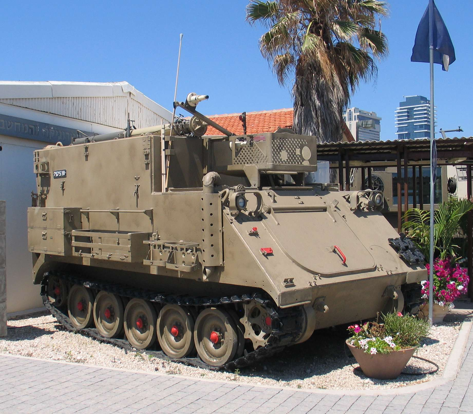 M577 command post carrier in Batey ha-Osef museum, Tel Aviv, Israel.